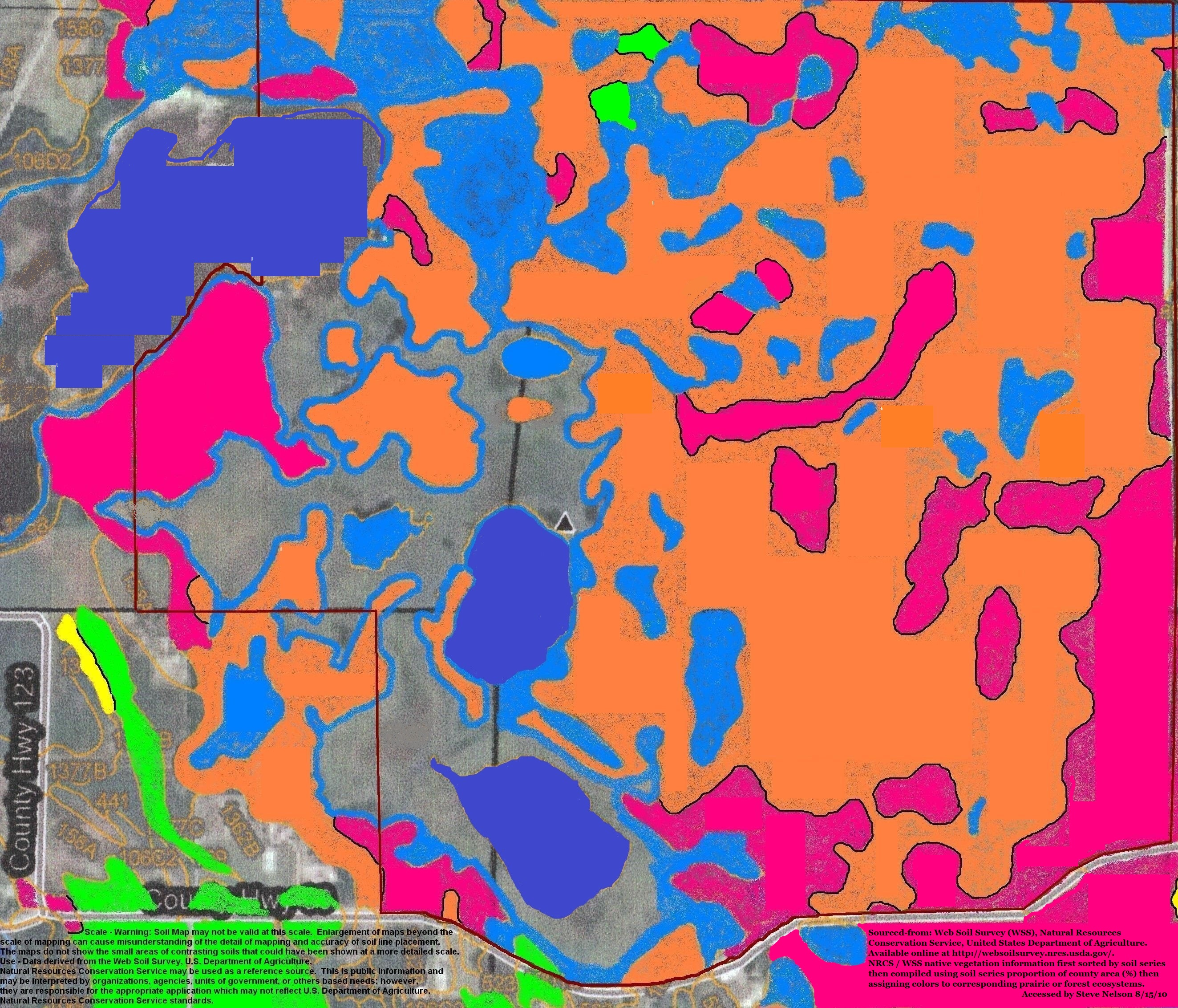 Map shows native vegetation of Lake Maria State Park in Wright County, Minnesota. The entire park is a savanna, part of a prairie ecosystem.